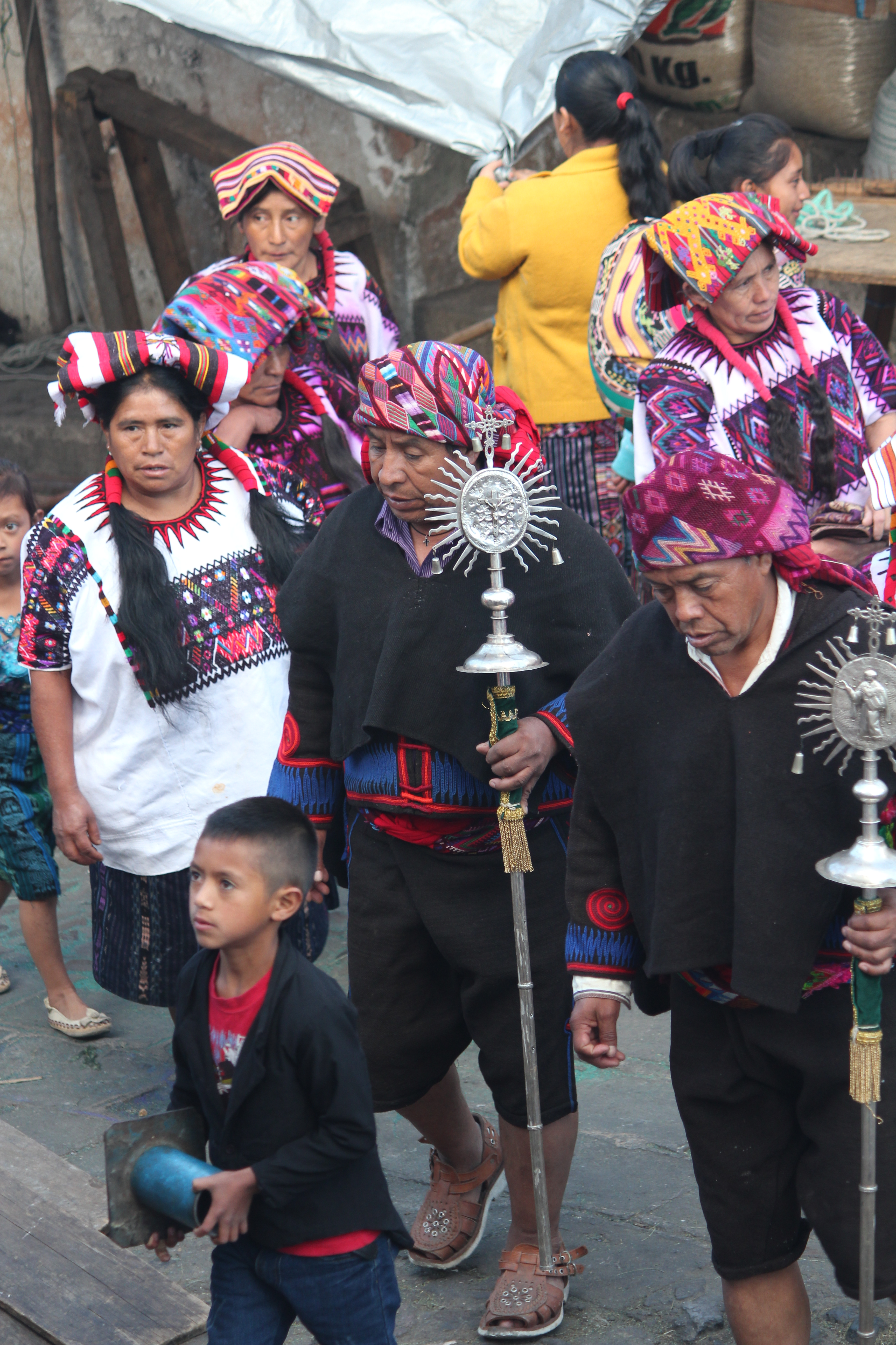 Chichicastenango market, confraternity members, Easter Sunday Chichicastenango, also known as Santo Tomás Chichicastenango, is a town in the El Quiché department of Guatemala, known for its traditional K'iche' Maya culture. The Spanish conquistadors gave the town its name from the Nahuatl name used by their soldiers from Tlaxcala: Tzitzicaztenanco, or City of Nettles. Its original name was Chaviar. Chichicastenango is a large indigenous town, lying on the crests of mountaintops at an altitude of 1,965 m. 98.5% of the municipality's population is indigenous. Chichicastenango is well known for its famous market days on Thursdays and Sundays where vendors sell handicrafts, food, flowers, pottery, wooden boxes, condiments, medicinal plants, candles, pom and copal (traditional incense), cal (lime stones for preparing tortillas), grindstones, pigs and chickens, machetes, and other tools. Among the items sold are textiles, particularly the women's blouses. The manufacture of masks, used by dancers in traditional dances, such as the Dance of the Conquest, have also made this city well known for woodcarving. (source